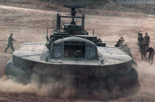 ACV 903, a US Army hovercraft used in the Vietnam War, in its early configuration. ACV 903 is pictured during testing in Fort Benning, Georgia.